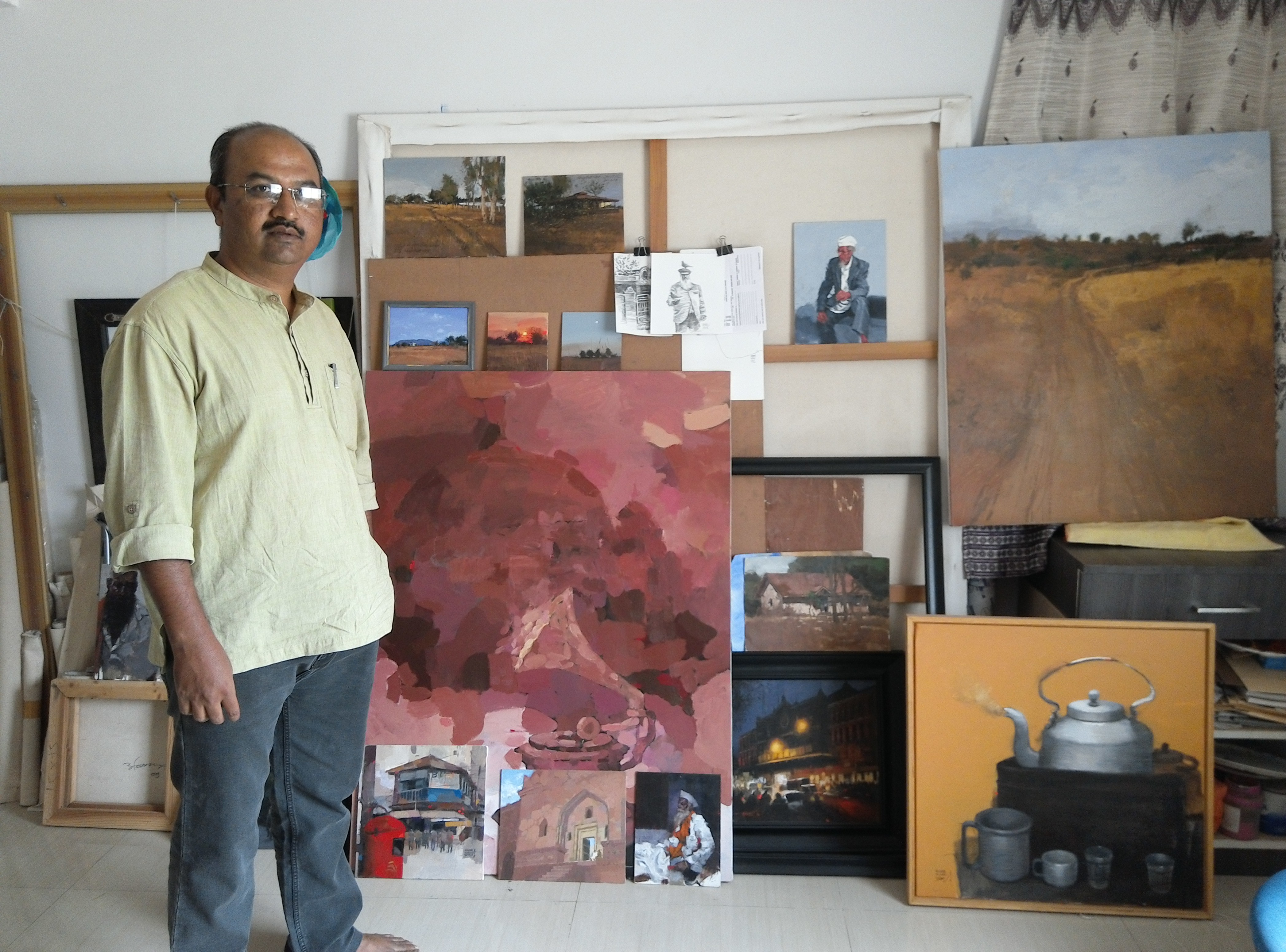 Artist Anwar Husain based in Islampur town of Maharashtra state in India with his paintings